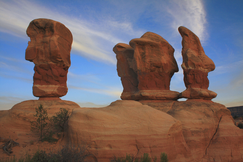 Grand Staircase-Escalante National Monument, Utah, USA, Devils Garden, four hoodoos, sunset